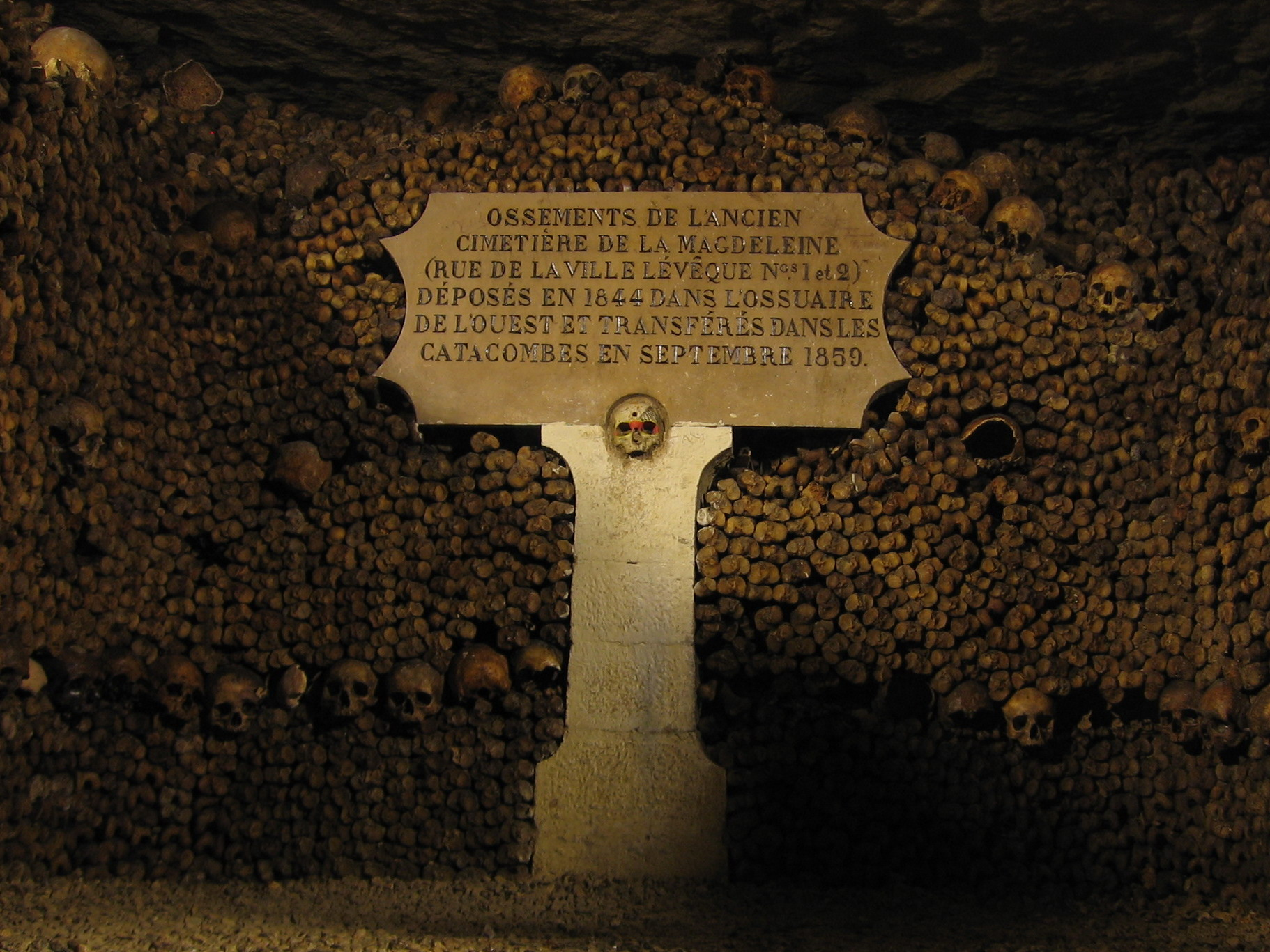 Image of Paris catacombs Bones from the former Magdeleine cemetery (La Ville Leveque Street numbers 1 and 2). Deposited in 1844 in the western ossuary (bone repository) and transferred to the catacombs in September 1859.